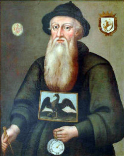 Nicolò Longobardo (1559-1654, Chinese name: 龍華民, Lónghuá mín), an Sicilian Jesuit in China in the 17th century.